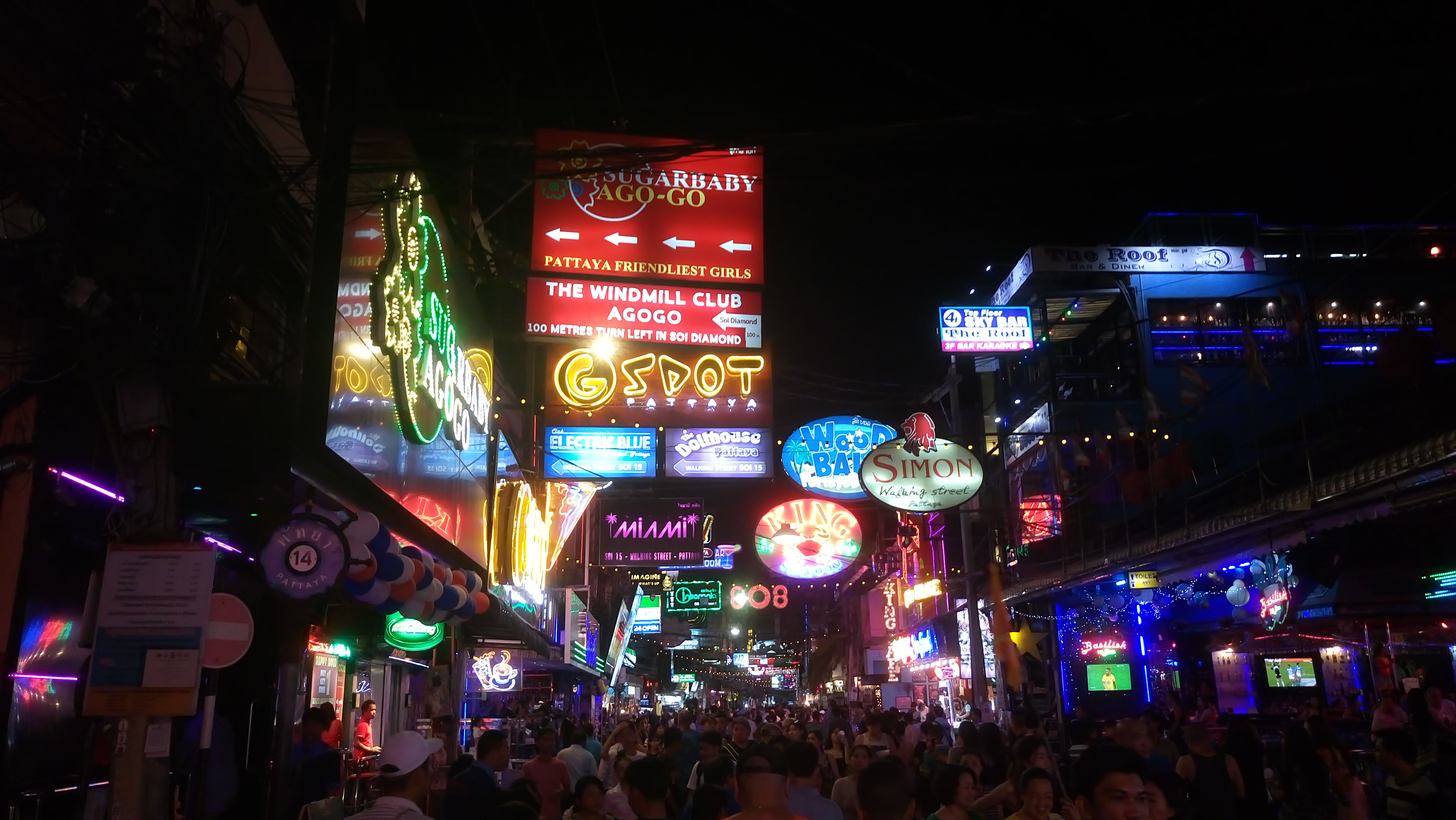 Walking Street in Pattaya in June 2017